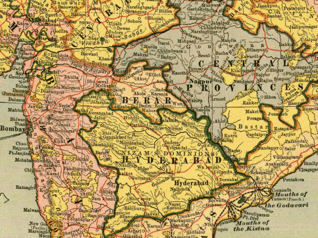 Map of India showing Hyderabad State.